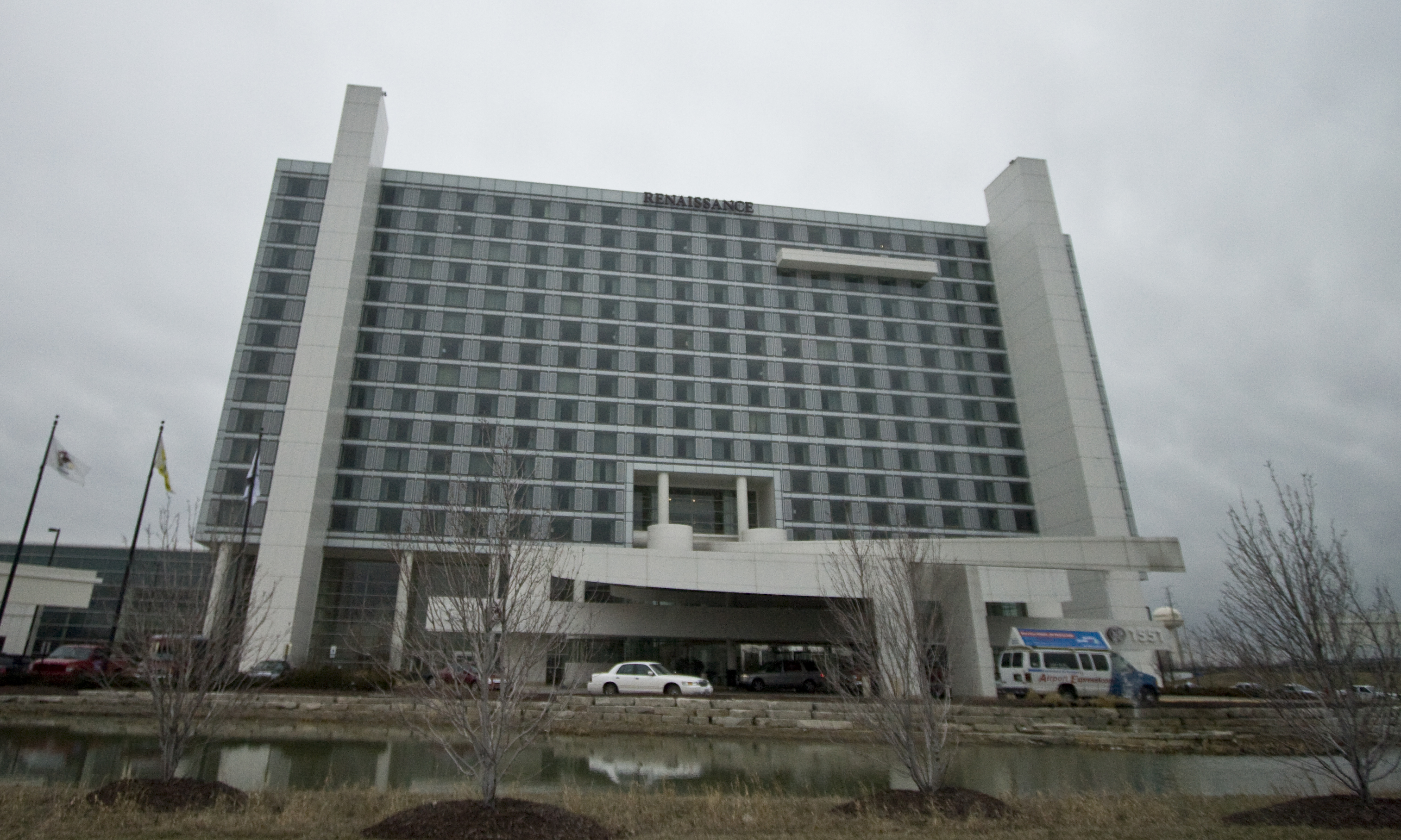 The Renaissance Schaumburg Convention Center Hotel — in Schaumburg, Illinois. In 2008.